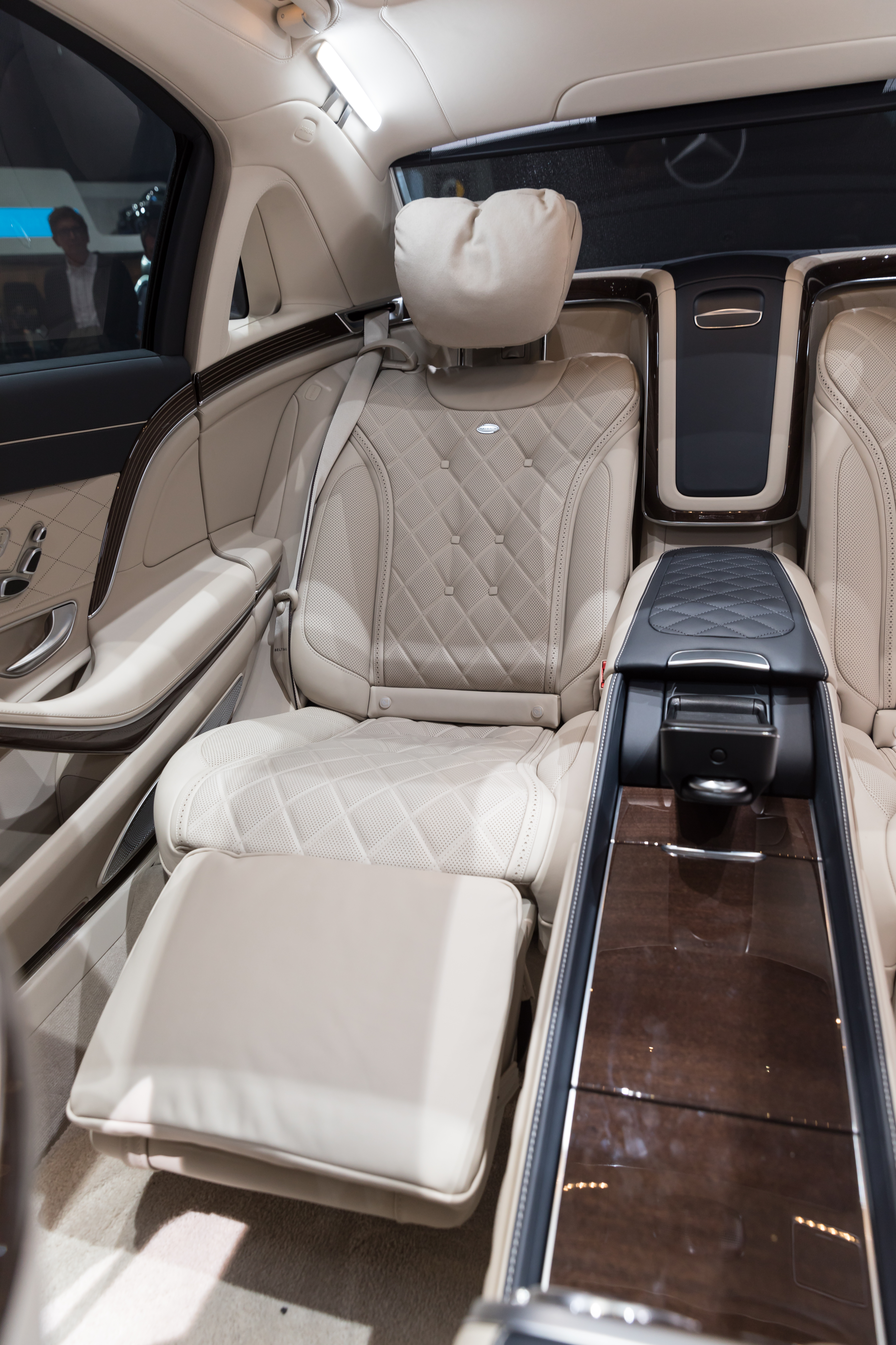 Passenger seat of a Mercedes-Maybach S 650 in reclined position at Geneva International Motor Show 2018